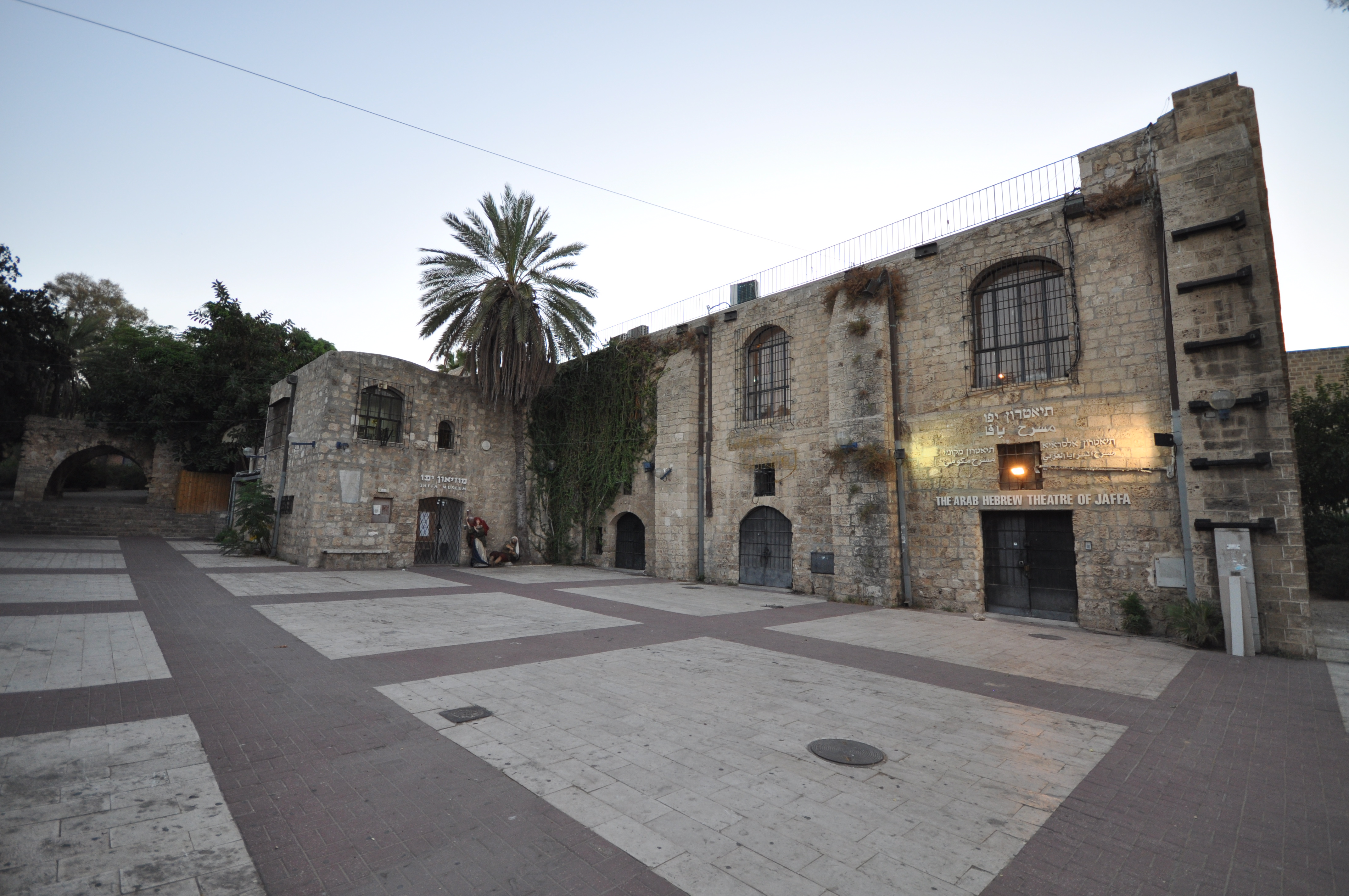 In ancient Jaffa, in a multi-arched building overlooking the sea, the Arab-Hebrew Theater creates a unique theatrical language using the building's challenging structure and Jaffa's rich fabric of life. The theater consists of two theatrical groups that produce plays both together and apart in both Hebrew and Arabic. The "Local Theater" continues its thirteen-year artistic tradition of working with both Jewish and Arab artists. The Arab Al-Saraya Theater of Jaffa has brought together Arab artists since it was founded in 1998. The Hebrew-Arab Theater is a "no-compromise", professional theater company that manages to create a one-of-a-kind style on a tight budget. The Theater is supported by the Tel-Aviv Municipality and the Israel Ministry of Culture, but without its own special spirit and the belief that this kind of different and unifying theater is a moral and artistic necessity, it would simply cease to exist as a home to so many brilliant theatrical artists